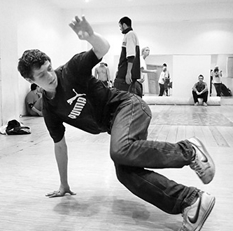 Eric Abbey practicing downrock at a studio in Moscow.